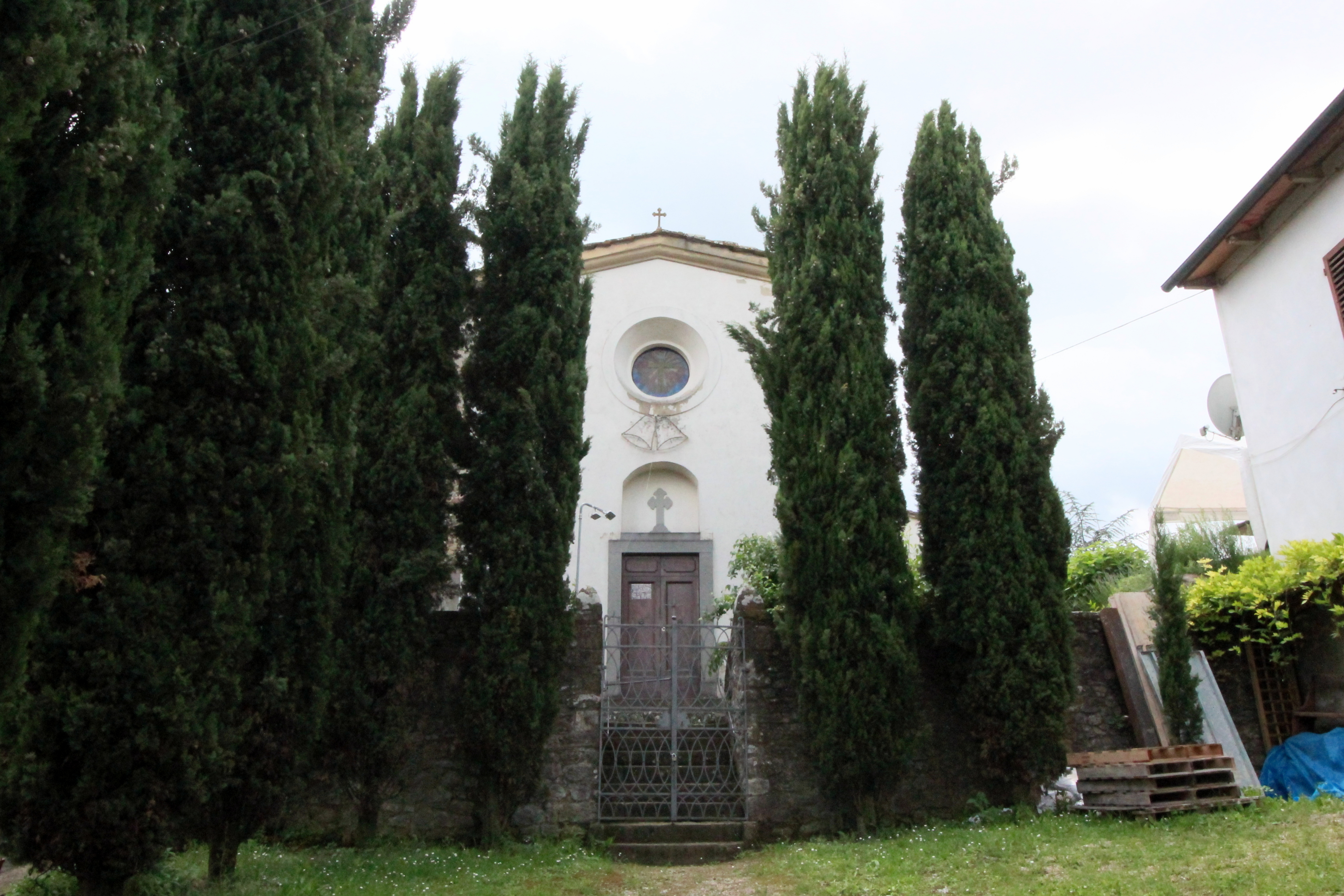 Church Madonna del Conforto, Ambra, hamlet of Bucine, Province of Arezzo, Tuscany, Italy